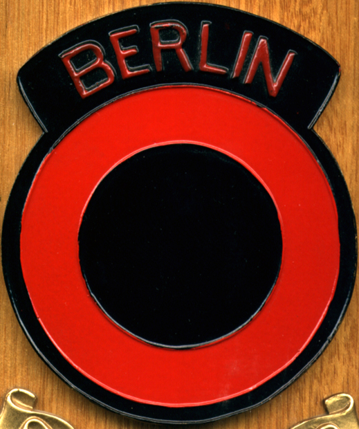 Photo of the insignia of the british troops in Berlin 1945 - 1994